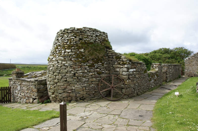 Kirbuster Farm Museum, Mainland, Orkney, Scotland. Kiln.